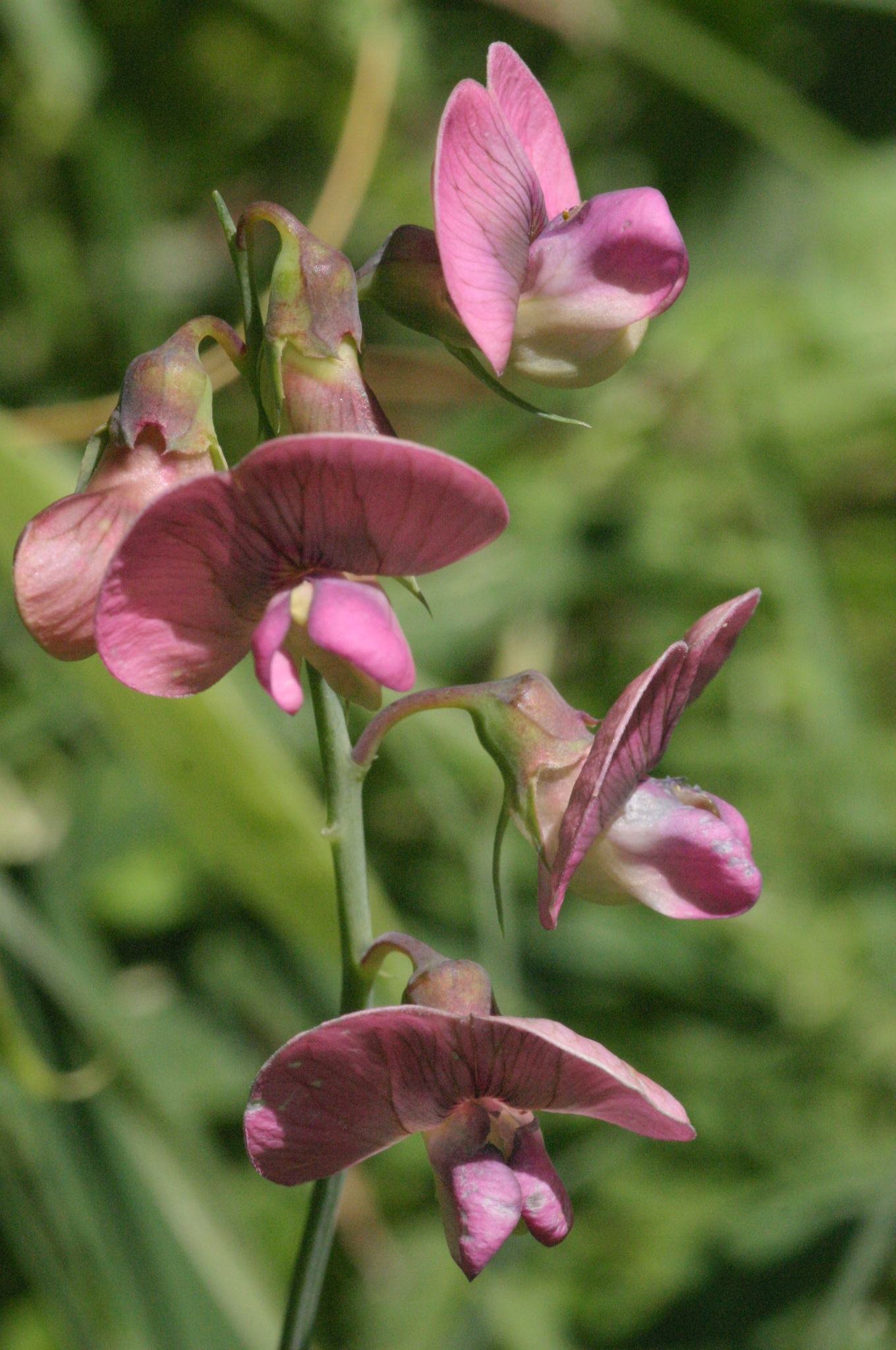 Lathyrus heterophyllus